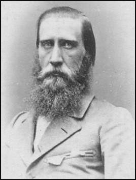 John B. Hood